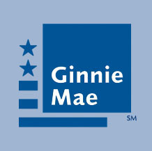 Ginnie Mae logo from the Ginnie Mae website. This file was transfered from . The original file description page is (was) here. Mae logo.PNG (00:13, 7 January 2006) . . User:Epolk (Epolk) (User talk:Epolk (Talk) ) . . 218x217 (21991 bytes) (Ginne Mae logo from the Ginna Mae website.)